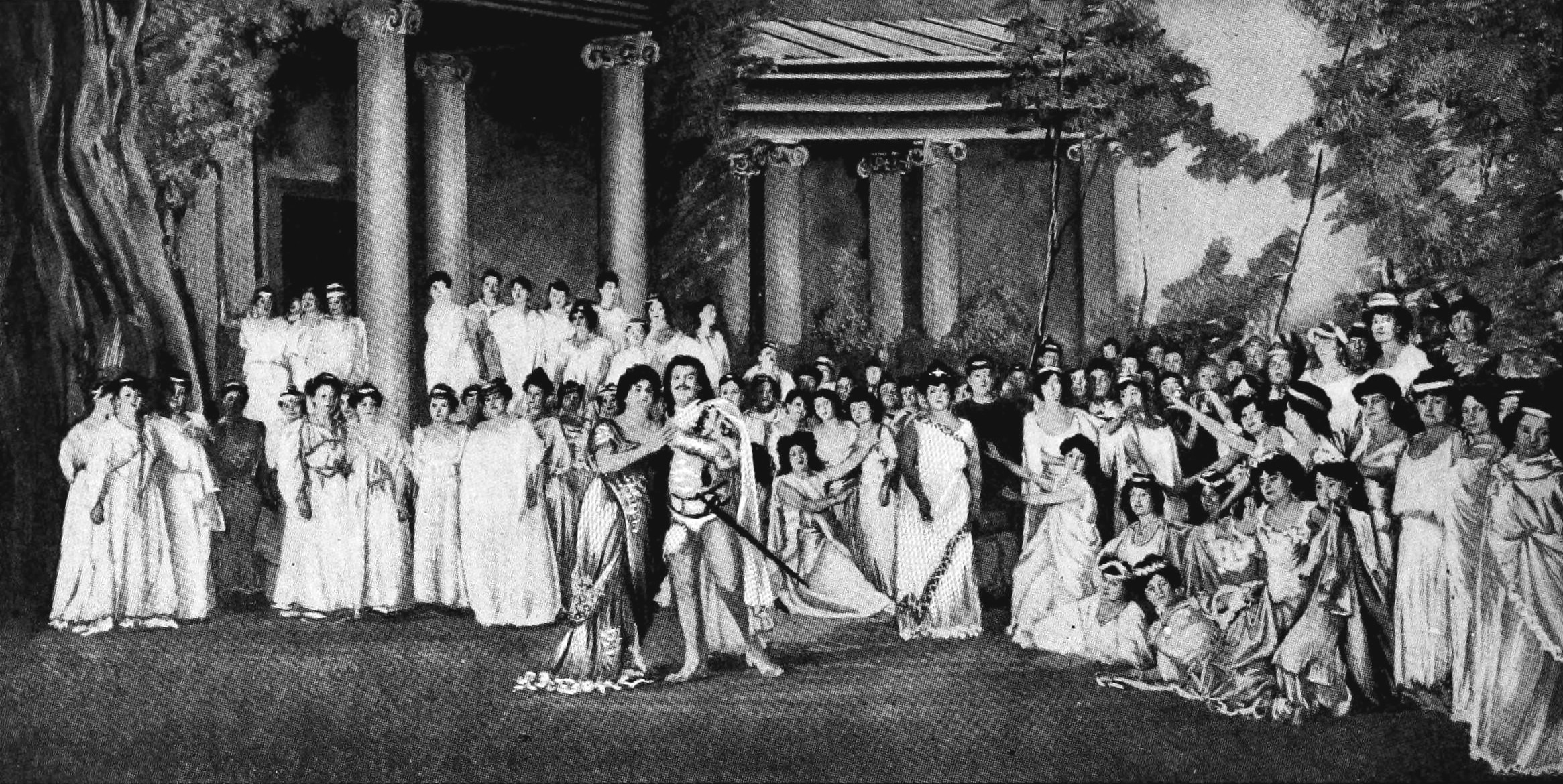 Boito - Mefistofele, act III - Scene - Photo Byron (note: This is obviously act IV, not III as stated in the source) Title: The Victrola book of the opera : stories of one hundred and twenty operas with seven-hundred illustrations and descriptions of twelve-hundred Victor opera records Year: 1917 (1910s) Authors: Victor Talking Machine Company Rous, Samuel Holland Subjects: Operas Publisher: Camden, N.J. : Victor Talking Machine Co. Text Appearing Before Image: -631 73I Ernani—Ernani involami By Maria Grisi, Soprano (In Italian) 12-inch, $1.25 12-inch, 1.25 12-inch, 1.25 10-inch, 75 309 Text Appearing After Image: SCENE FROM MEFISTOFELE (ACT (French) MEFISTOFELE (May-phee-stoh-feh-leh) (English) MEPHISTOPHELES (Mef-iss-tof-e-leez) OPERA IN FOUR ACTS Text and music by Arrigo Boito; a paraphrase of both parts of Goethes Faust. The first production at La Scala, Milan,1868, was a failure. Rewritten and givenin 1875 with success. First London pro-duction July 6, 1880. First Americanproduction at the Academy of Music,November 24, 1880, with Campanini,Cary and Novara. Given at the NewOrleans Opera in 1881, in Italian, andin 1894, in French. Other New Yorkproductions were in 1896, with Calve;in 1889, in German, with Lehmann;and in 1901 with Mclntyre, Homer andPlancon; in 1904 with Caruso andEames; in 1907, for Chaliapine; in 1906at the Manhattan Opera; the Chicagoopera revival for Ruffo; and the re-cent Metropolitan production withCaruso, Destinn, Hempel and Amato.